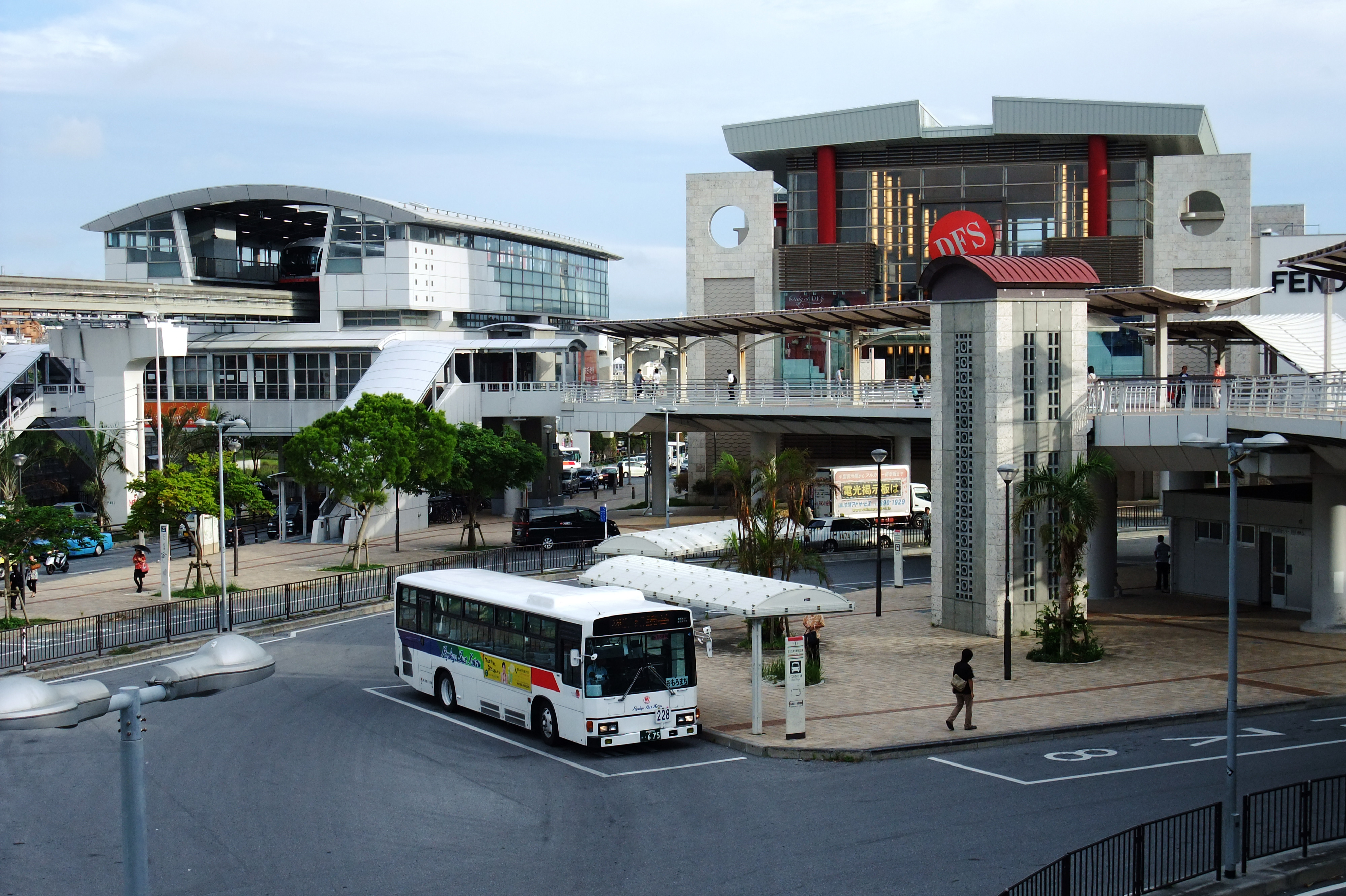 Bus stop in front of Omoromachi Station, Okinawa Monorail.